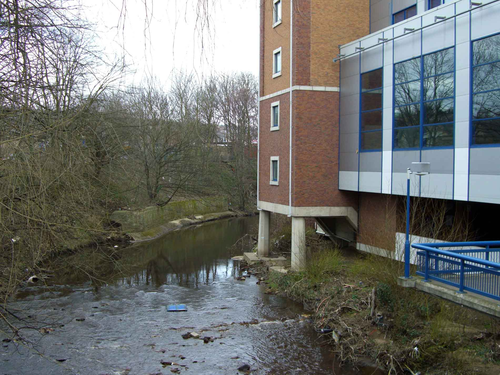 The River Don as flows past the Sheffield Wednesday ground